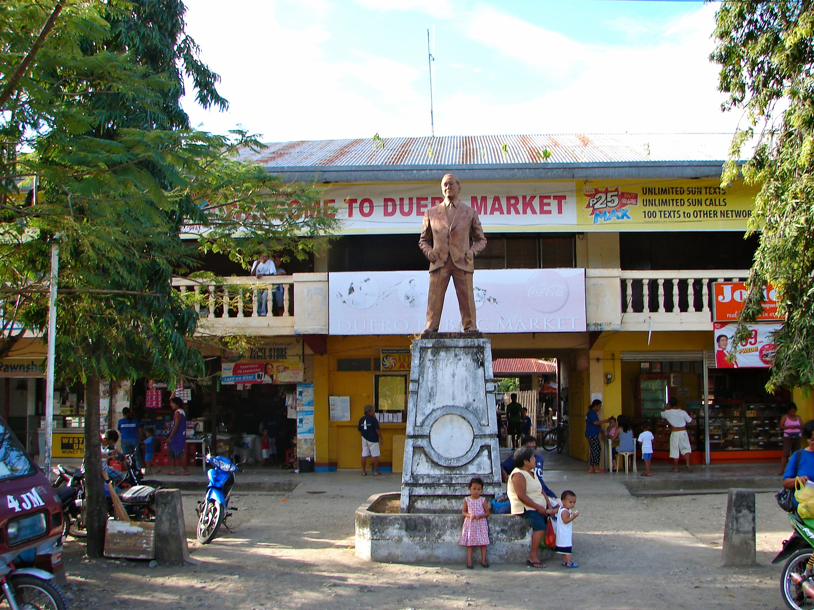 Public market of Duero, Bohol, Philippines